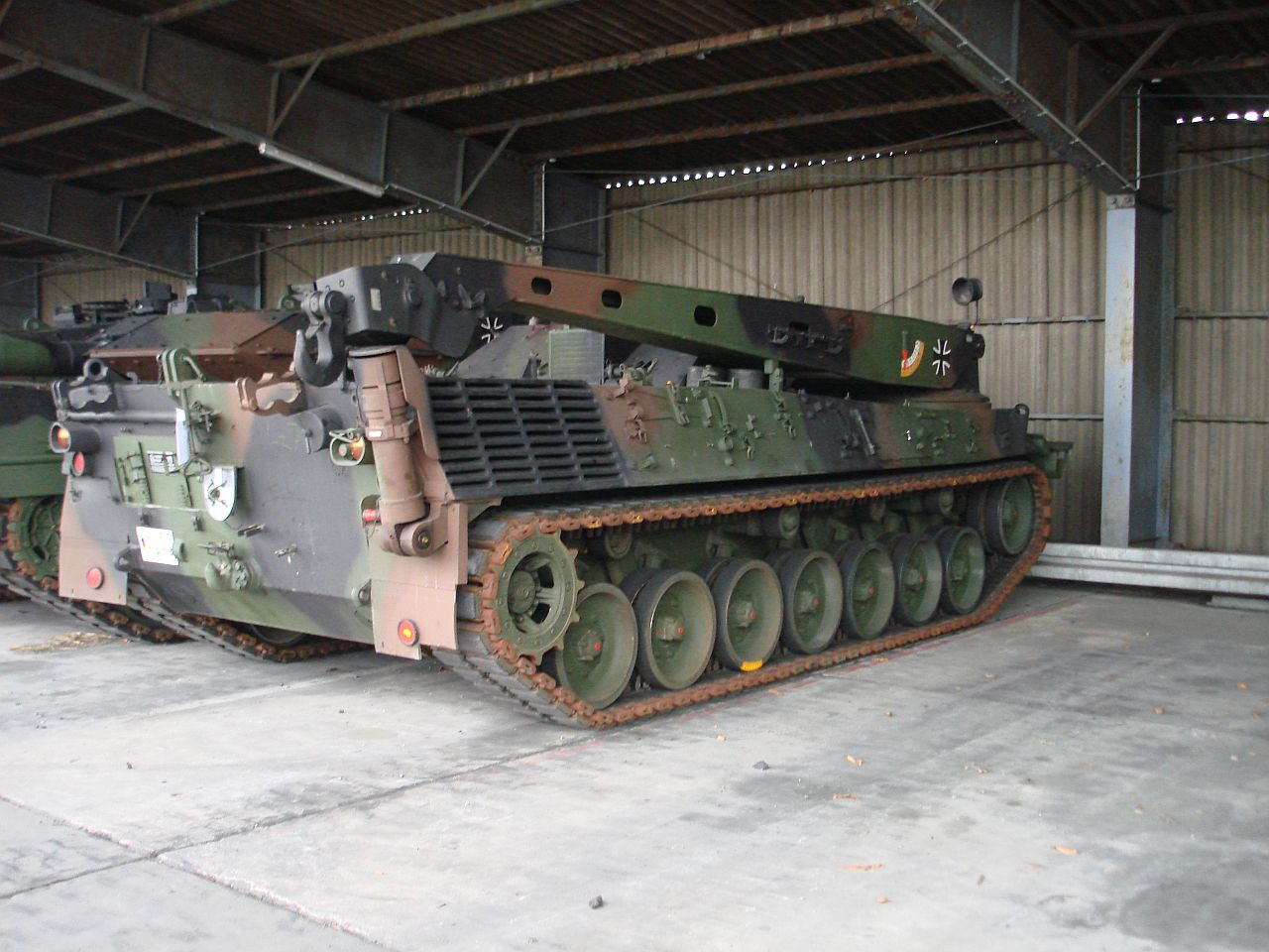 Rear Side, Armoured Recovery Vehicle 2A2 of the German Army